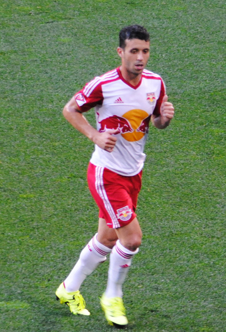 Felipe playing for RBNY in 2015